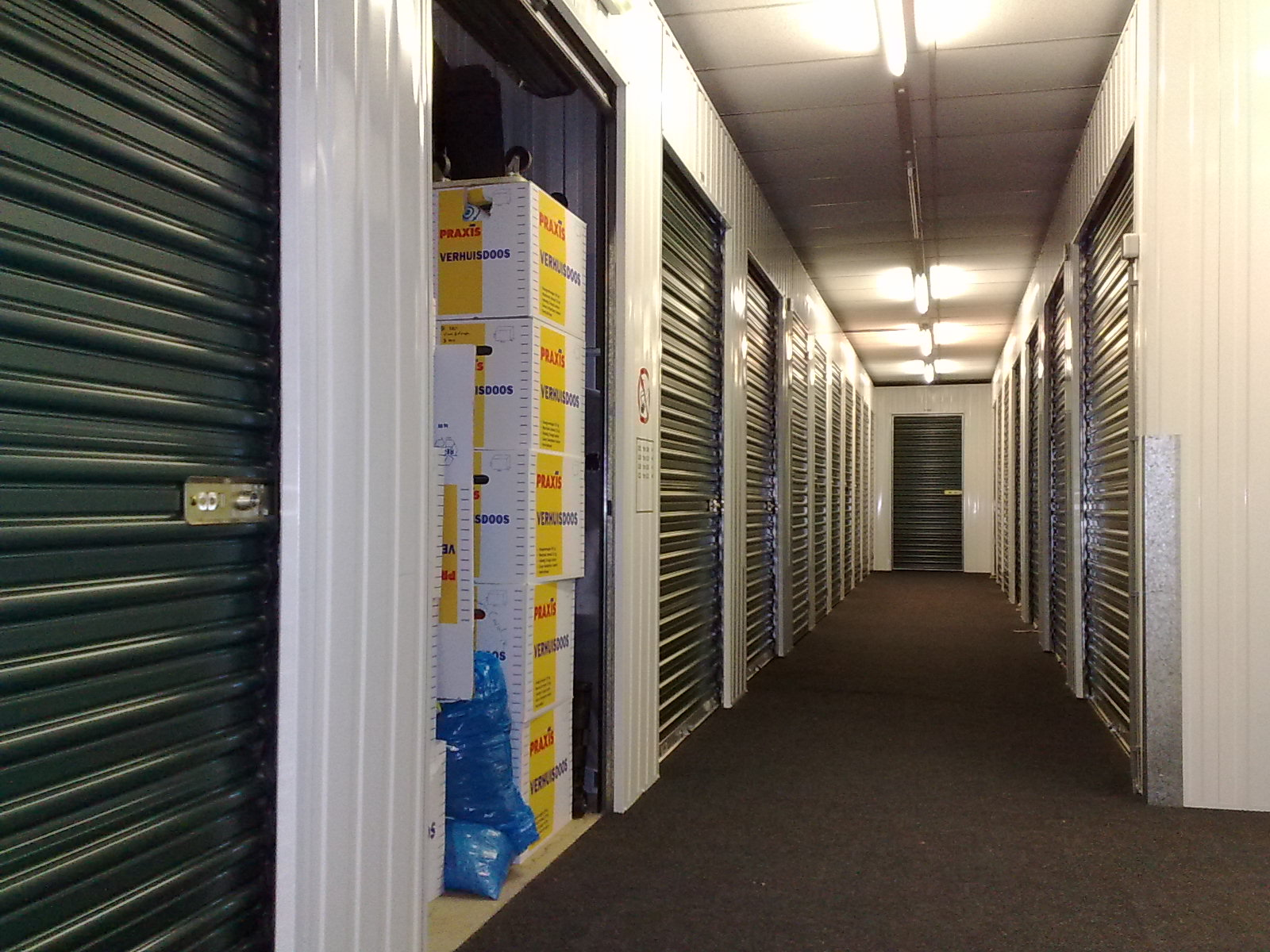 Corridor with self-storage units (in CityBox Utrecht, Netherlands)